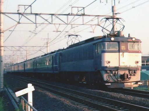 JR East Noto express service hauled by class EF62 electric locomotive EF62 43, between Shimmachi and Jimbohara